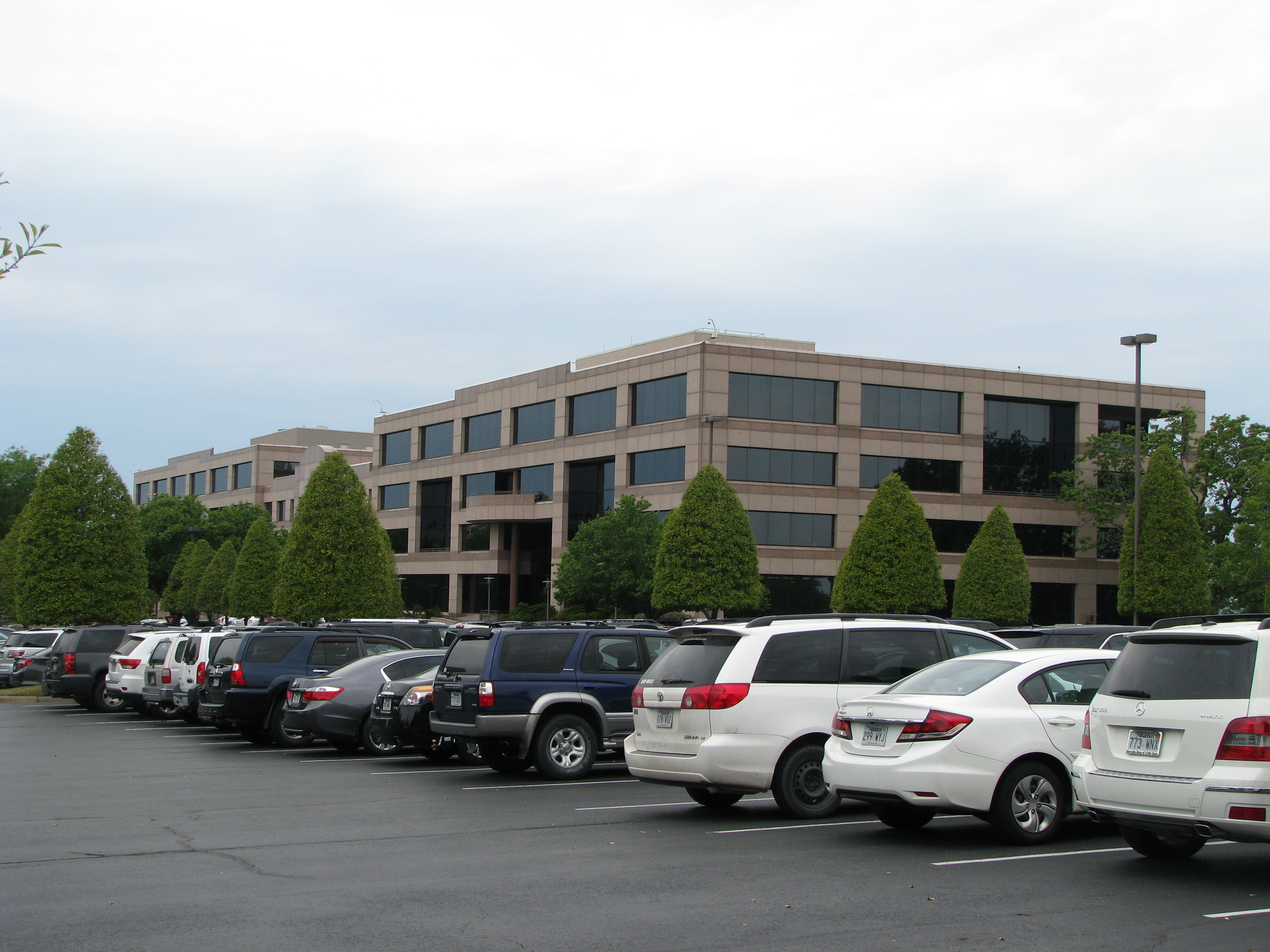 A picture of the Dillard's Headquarters Building in Little Rock, Arkansas, USA. I took this picture on April 25th, 2018 with my Canon PowerShot S5 IS.